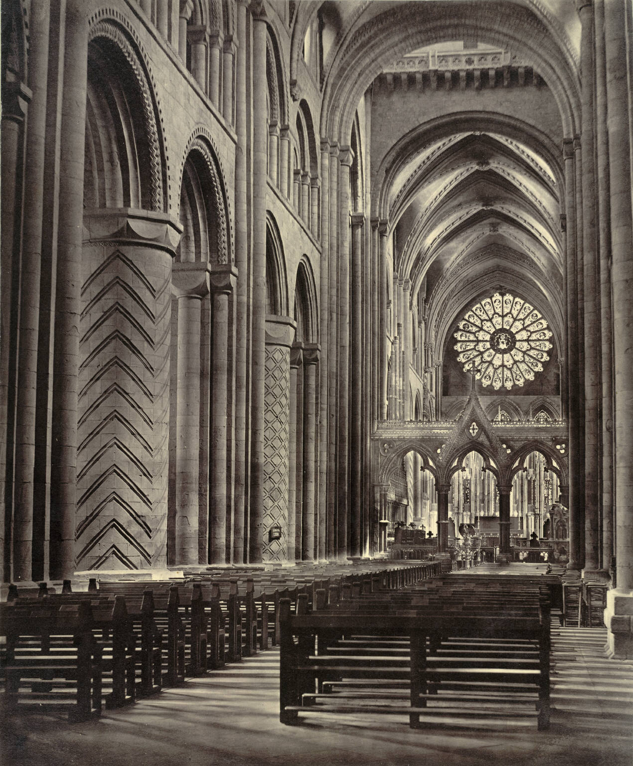 Collection: A. D. White Architectural Photographs, Cornell University Library Accession Number: 15/5/3090.01049 Title: Durham Cathedral Building Date: 1093-1128 Photograph date: ca. 1865-ca. 1895 Location: Europe: United Kingdom; Durham Materials: albumen print Image: 11 1/2 x 9 1/2 in.; 29.21 x 24.13 cm Provenance: Gift of Andrew Dickson White Persistent URI: There are no known copyright restrictions on this image. The digital file is owned by the Cornell University Library which is making it freely available with the request that, when possible, the Library be credited as its source. We had some help with the geocoding from Web Services by Yahoo! This image is from the Cornell University Library's The Commons Flickr stream. The Library has determined that there are no known copyright restrictions. This image was taken from Flickr's The Commons. The uploading organization may have various reasons for determining that no known copyright restrictions exist, such as: The copyright is in the public domain because it has expired; The copyright was injected into the public domain for other reasons, such as failure to adhere to required formalities or conditions; The institution owns the copyright but is not interested in exercising control; or The institution has legal rights sufficient to authorize others to use the work without restrictions. More information can be found at Please add additional copyright tags to this image if more specific information about copyright status can be determined. See Commons:Licensing for more information.No known copyright restrictionsNo restrictions